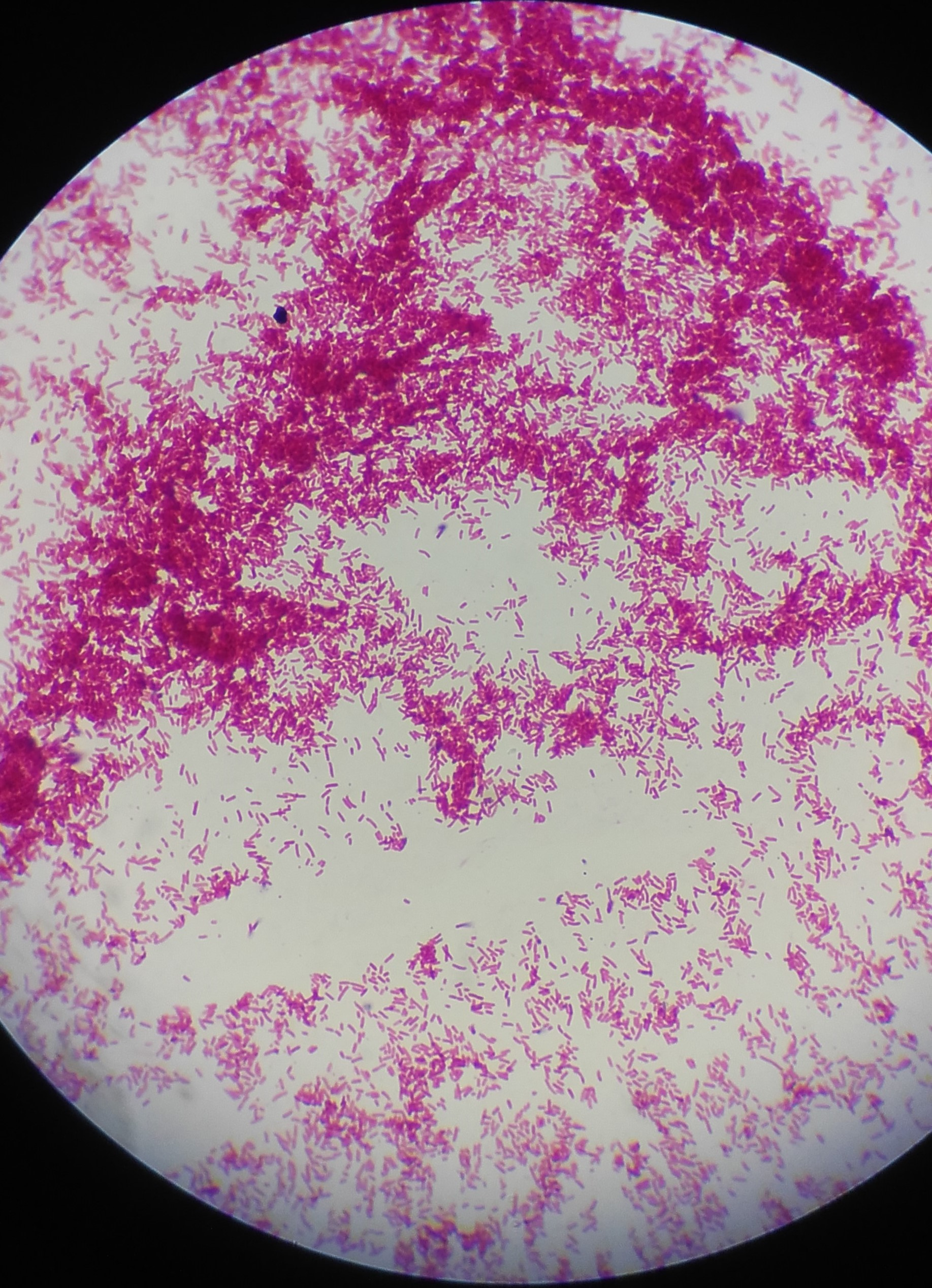 Lactobacillus is a Gram + aerobic Bacillus, catalase - Used as a probiotic.